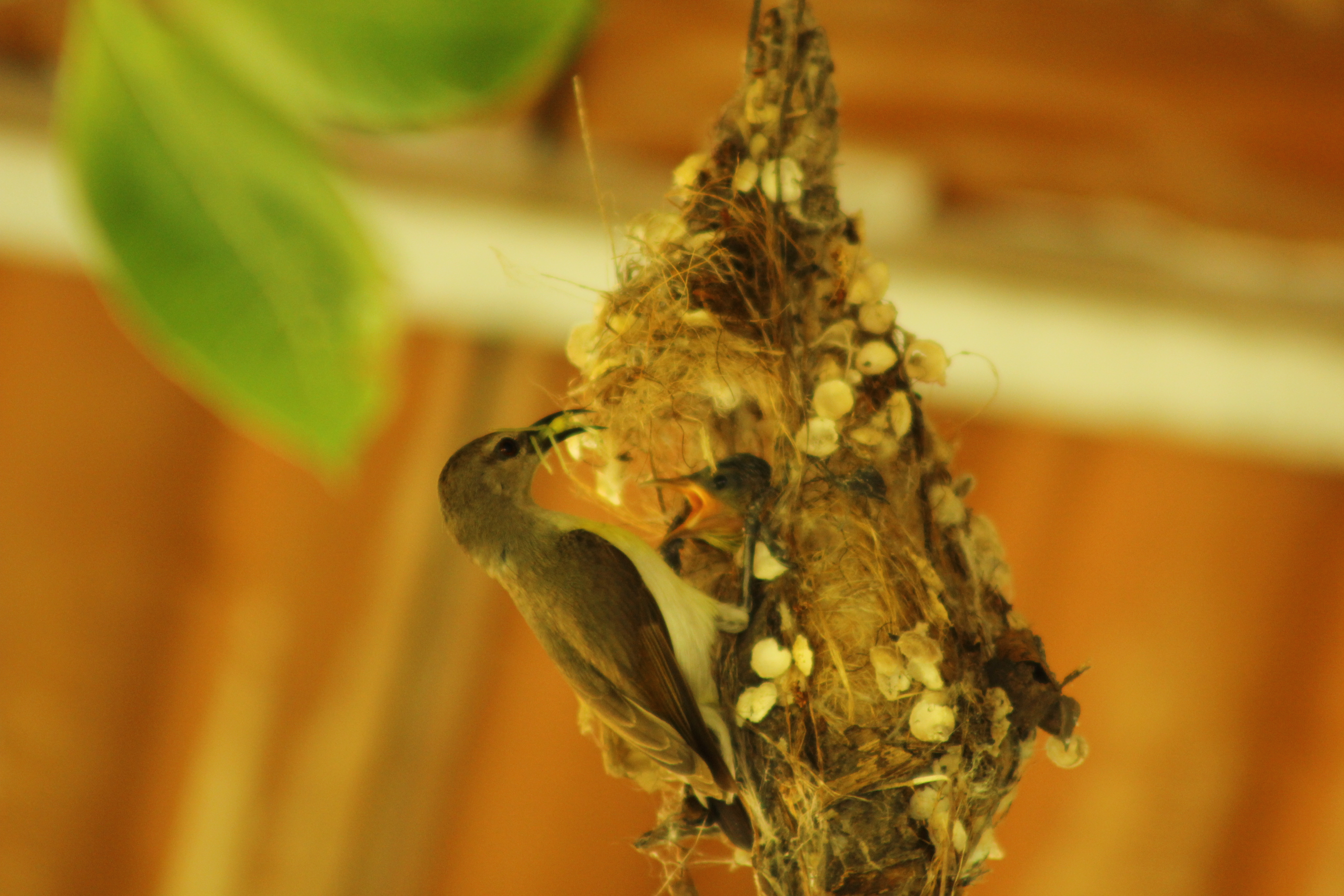 The female sunbird is feeding its chick a small spider. The nest is eloquently woven and the chick's bright orange inner-mouth is quite visible.